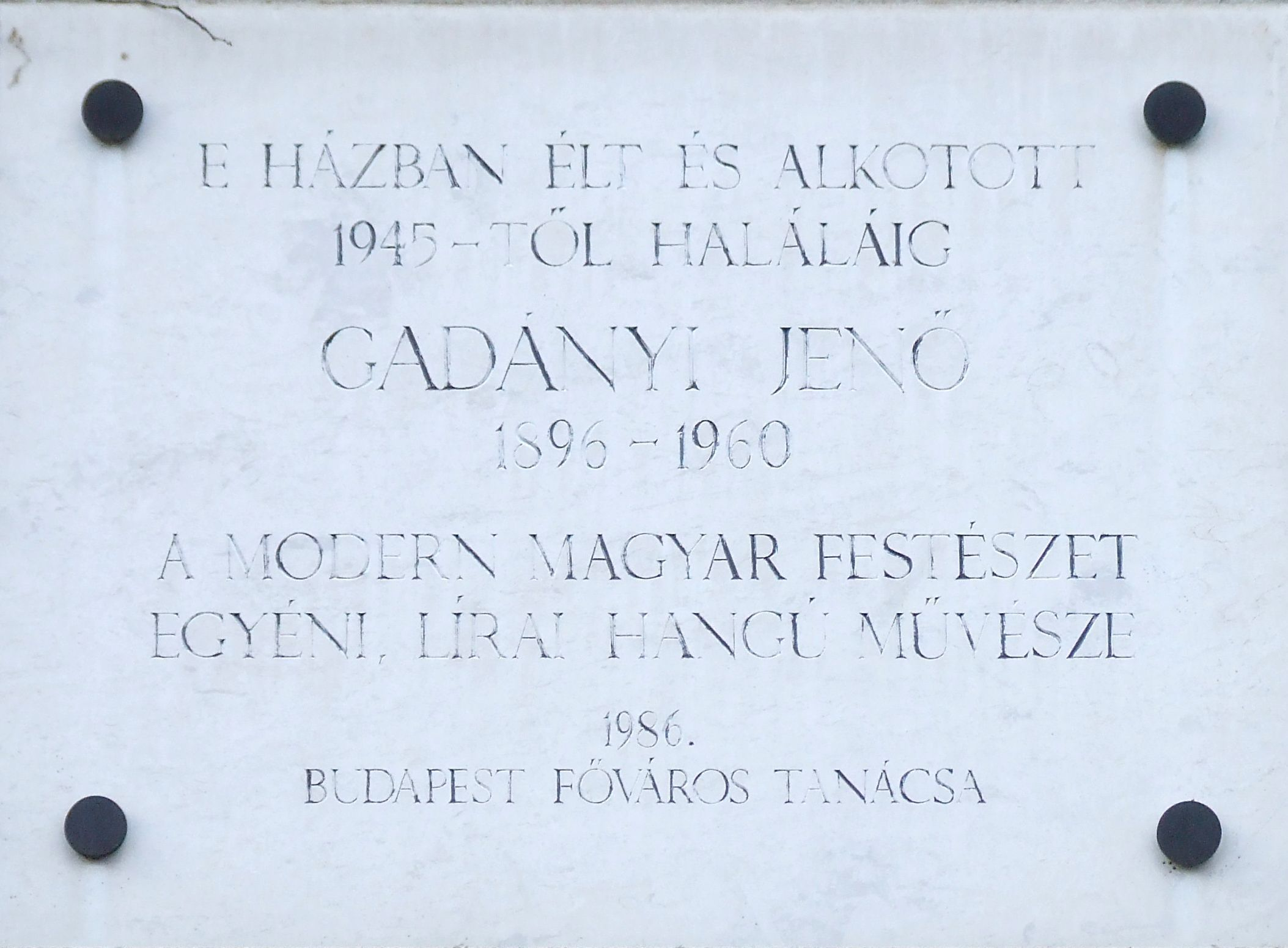 Jenő Gadányi commemorative plaque in Budapest District XII, Kiss János altábornagy Street No 55.